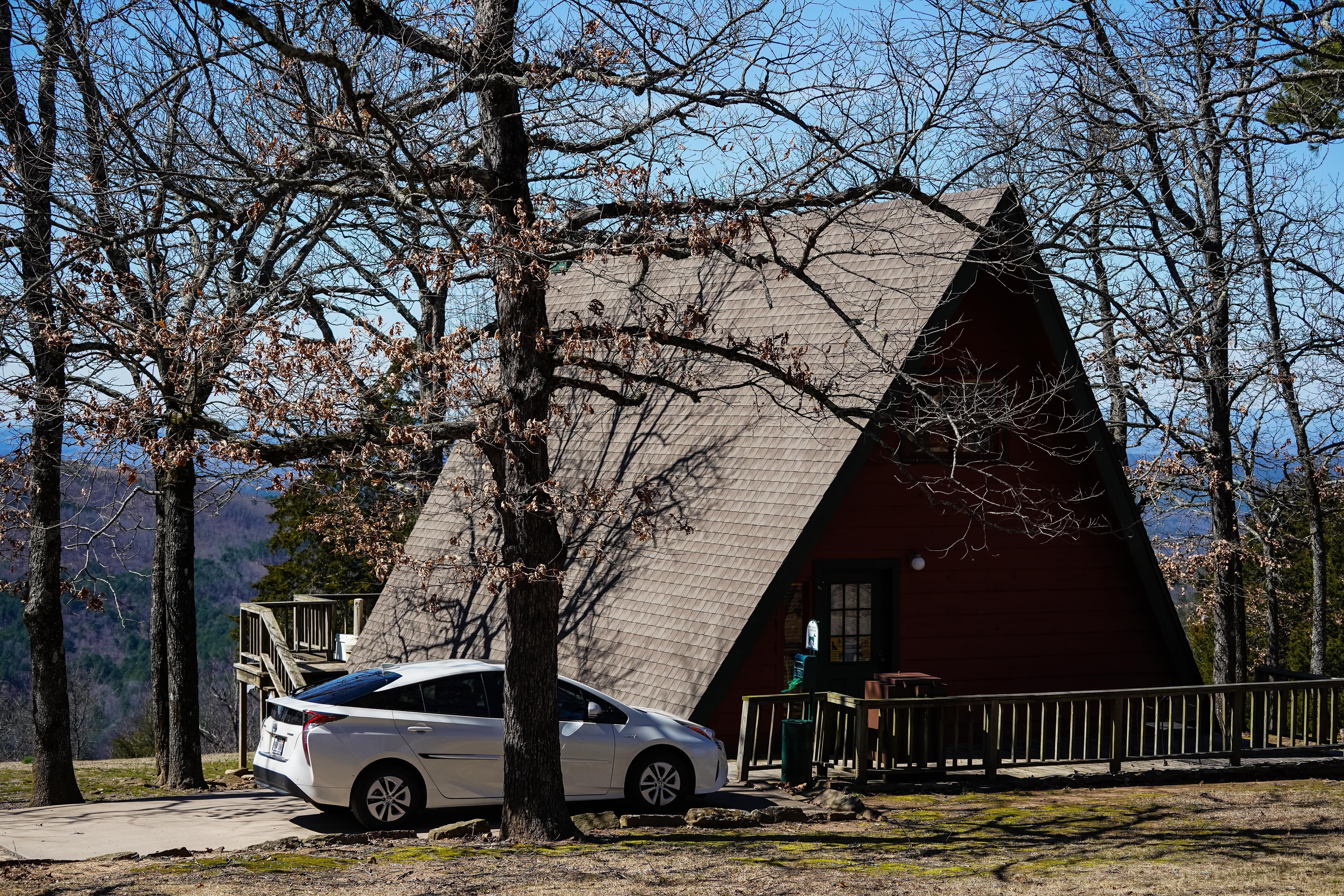 A-frame (and other) pet-friendly cabins available to rent through the parks department on Mount Nebo.